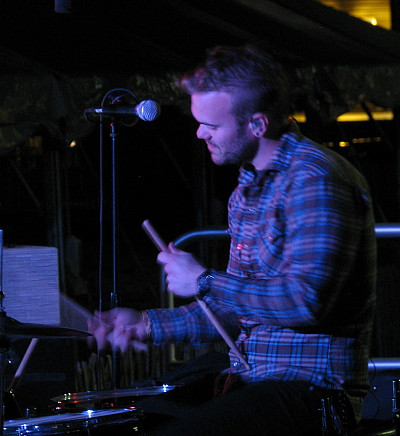 Satellite playing at WBJB Summer Concert Series on the Beach at Belmar, NJ on 08152013. Photo by LHCollins.